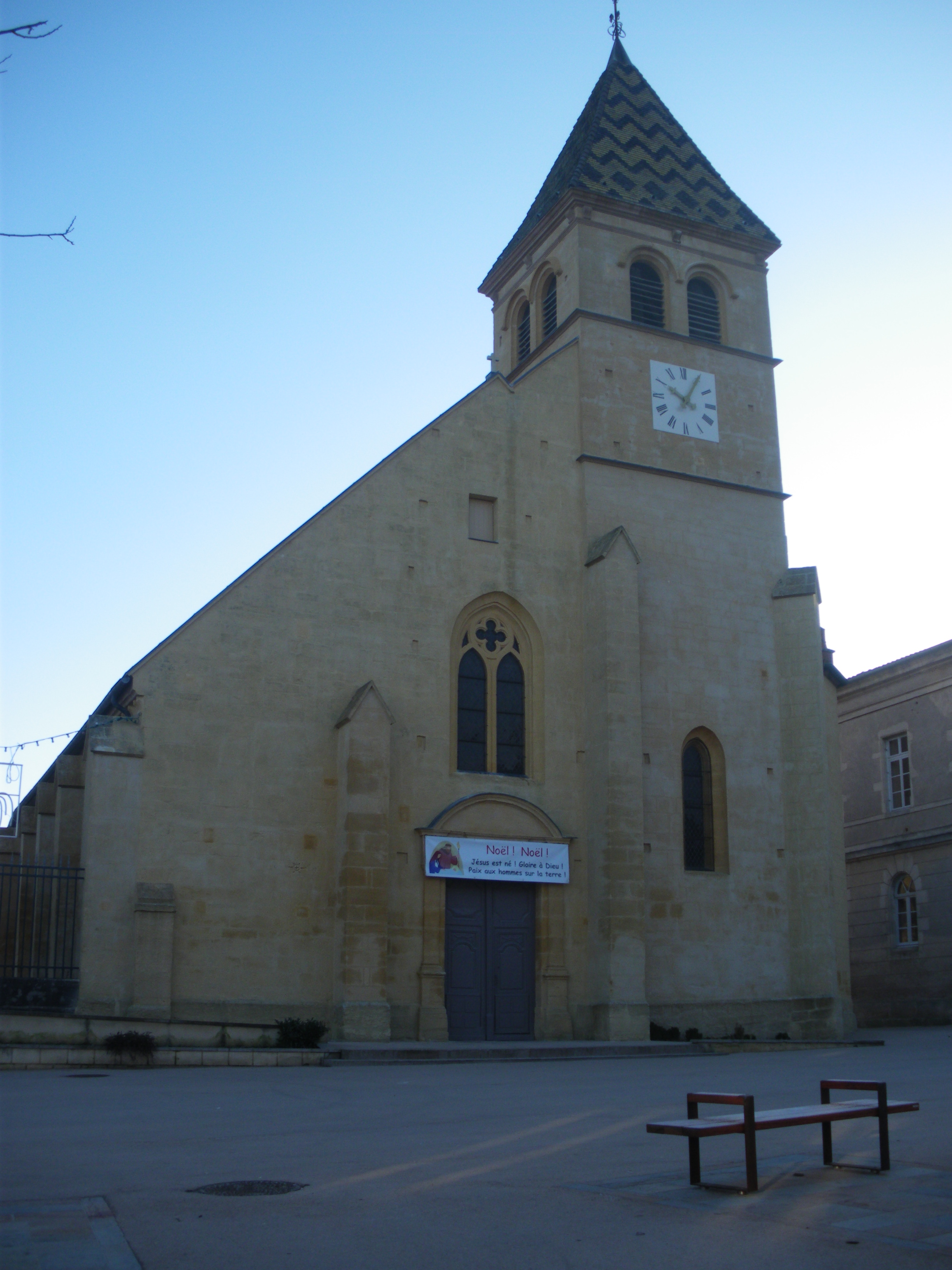 Church of Is sur Tille, France